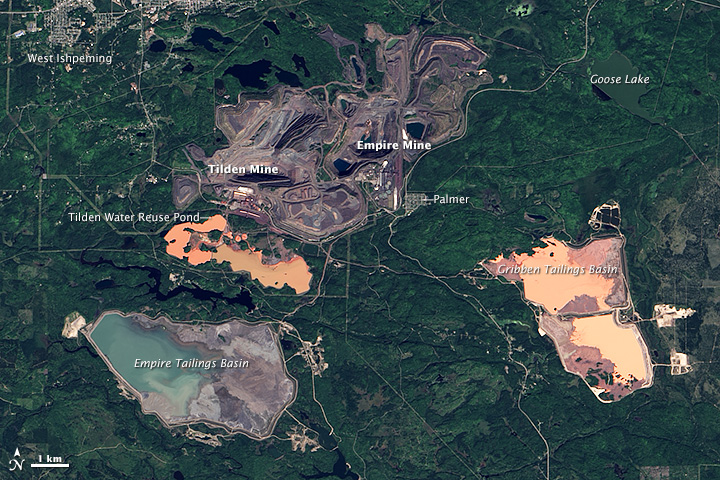 The Operational Land Imager (OLI) on Landsat 8 captured this image of iron mines in northern Michigan on September 11, 2013. Although the mined areas look like one facility from a satellite perspective, there are two separate mines in this scene. The Empire Mine, which produces about 5.5 million tons of magnetite each year, is on the east side of the complex; Tilden Mine, which produces about 8 million tons of hematite and magnetite each year, is just to the west. Exposed rock and dirt in the mines appear gray compared to the surrounding forest. Large pits, piles of rock, processing facilities, roads, and railroad tracks are visible within both mines. The water in the Gribben Tailings Basin and the water reuse pond serving Tilden Mine is orange due to the high concentration of hematite, a mineral that often has a rusty brown color. In contrast, the water in the tailings basin for Empire Mine is blue because that mine only produces magnetite. You can also see Palmer and West Ishpeming, nearby towns where many mine employees live. The two mines are boons for the local economy, generating about $775 million in economic activity every year and supporting 1,600 jobs, according to Cliffs Natural Resources, the company that operates the two mines. However, the mines also have significant environmental impacts. For instance, a report released by Michigan’s Department of Environmental Quality found that sediment in Goose Lake sediment and in some nearby streams have elevated levels of selenium due to mining. Though essential to life, selenium can be toxic to wildlife in high concentrations. In response to the elevated selenium levels, environmental authorities have issued fish consumption advisories for several waterways near the mines.